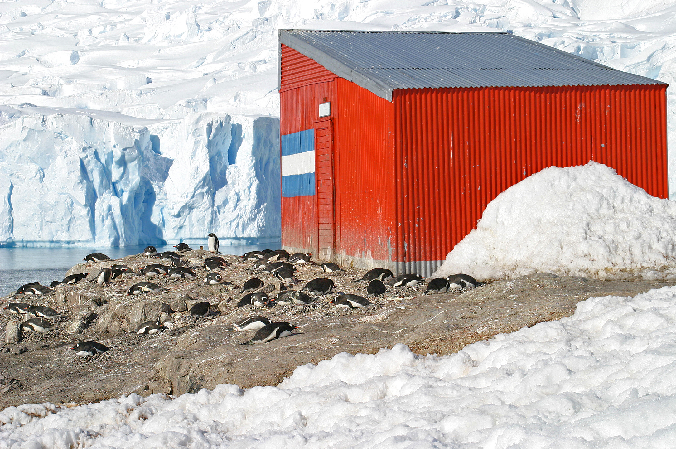 Neko Harbor in Anvord Bay in the western Antarctic Peninsula. The refuge is maintained by the Argentine Navy to support Antarctica research.